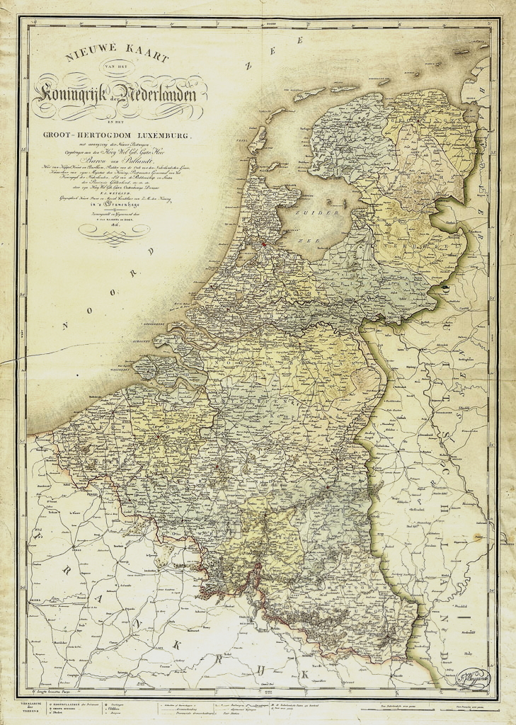 New map of the Kingdom of the Netherlands and Luxemburg